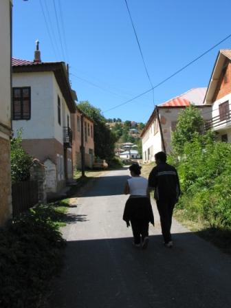 A street in Lazaropole